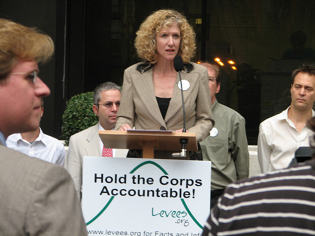 Presser